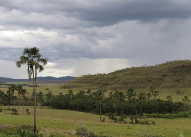 The habitat of A. lutzorum sp. n.: flooded gallery forests